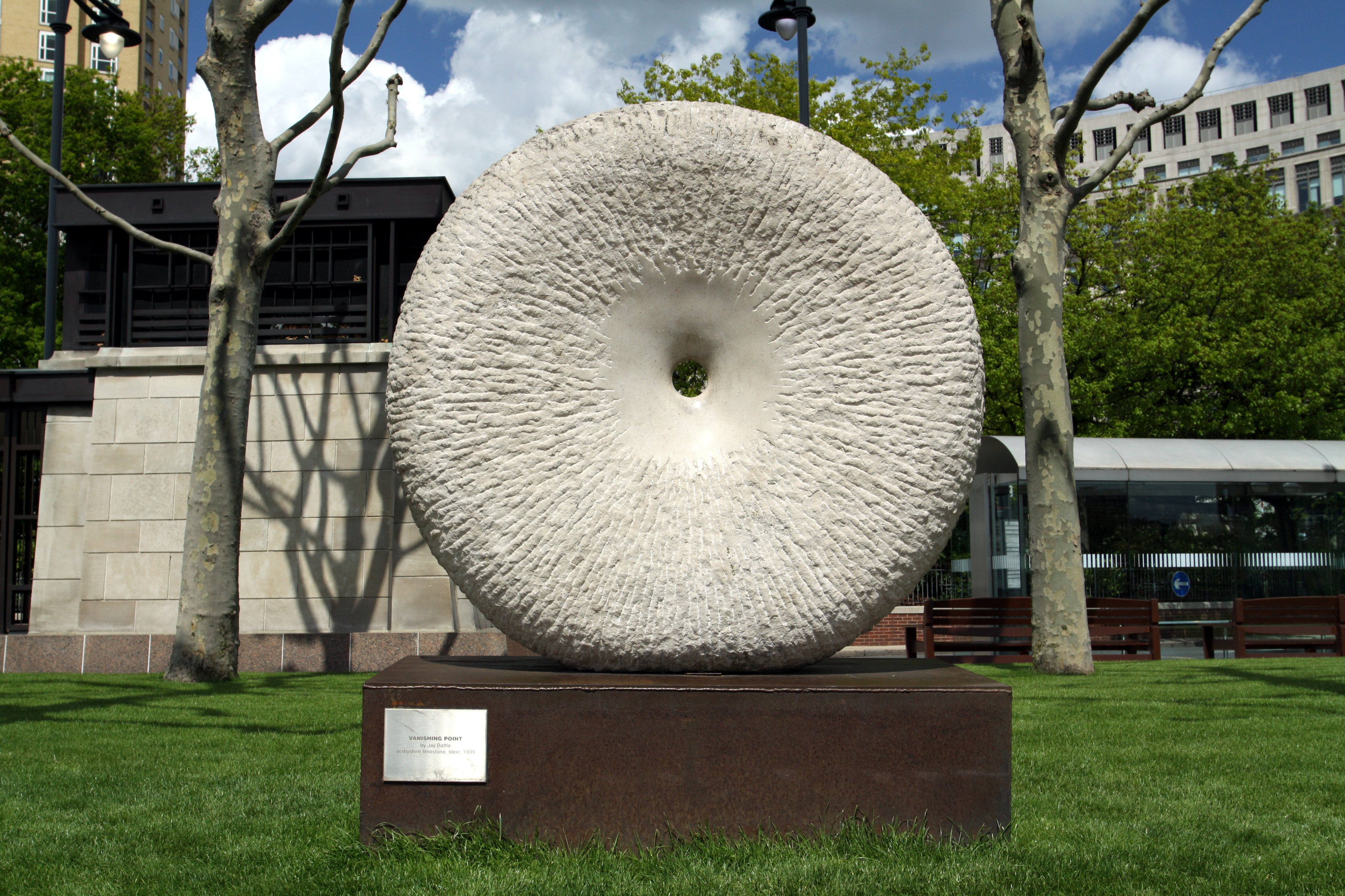 Sculpture Vanishing Point by Jay Battle in the London Borough of Tower Hamlets, London, England, Great Britain The making of this file was supported by Wikimedia UK.